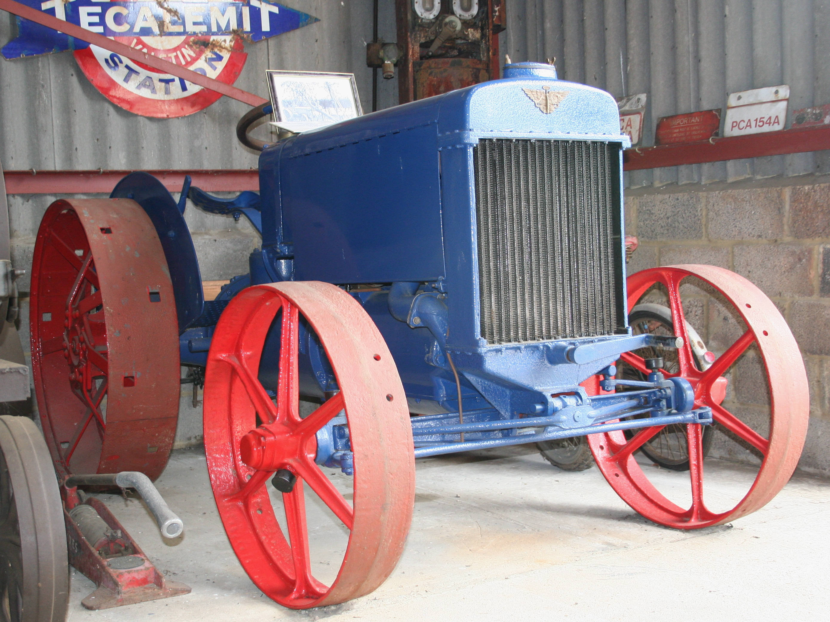 1920 Austin tractor. I think it was based on a heavy 12 chassis.